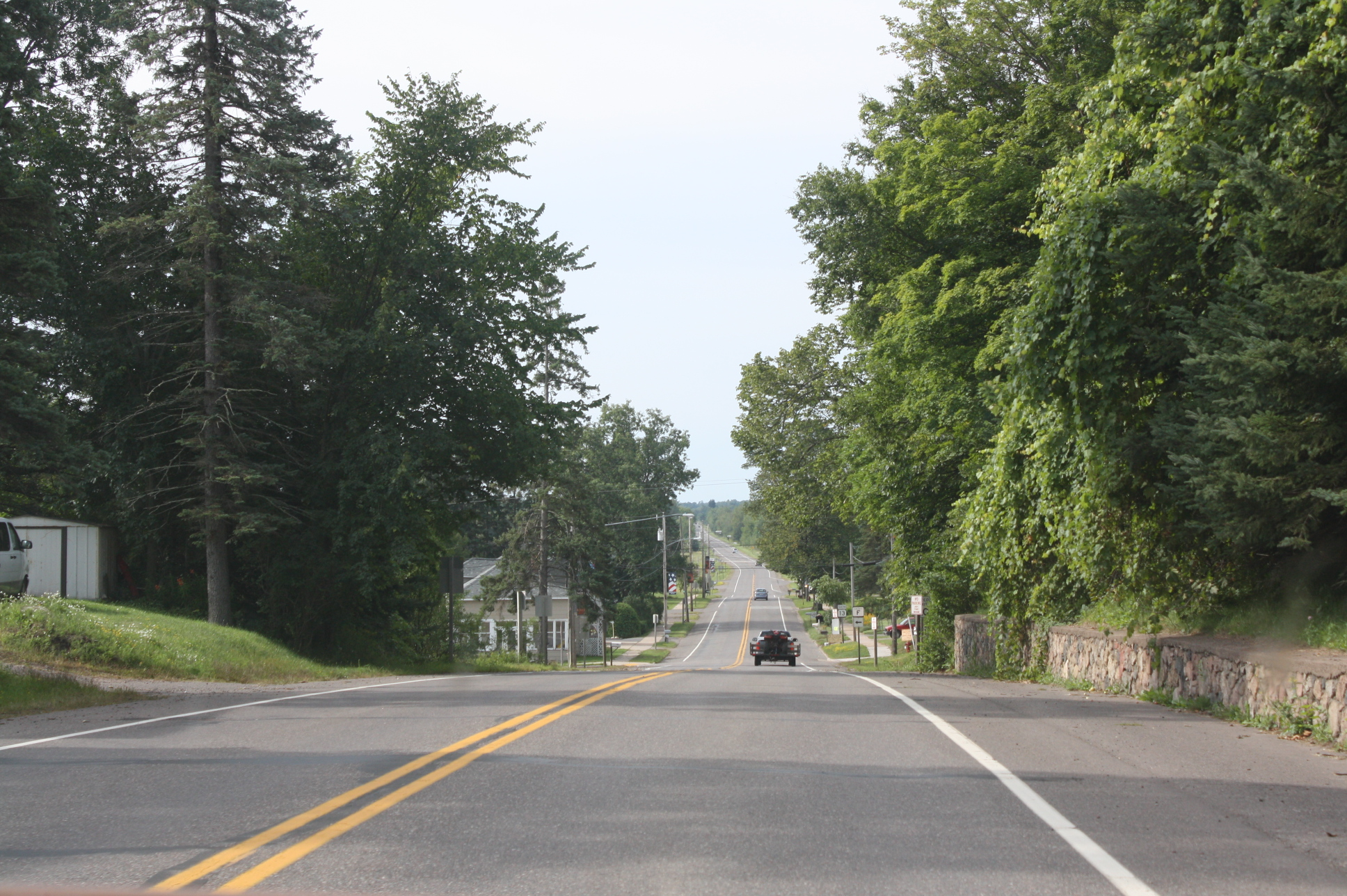 Looking south at Butternut, Wisconsin on Wisconsin Highway 13.